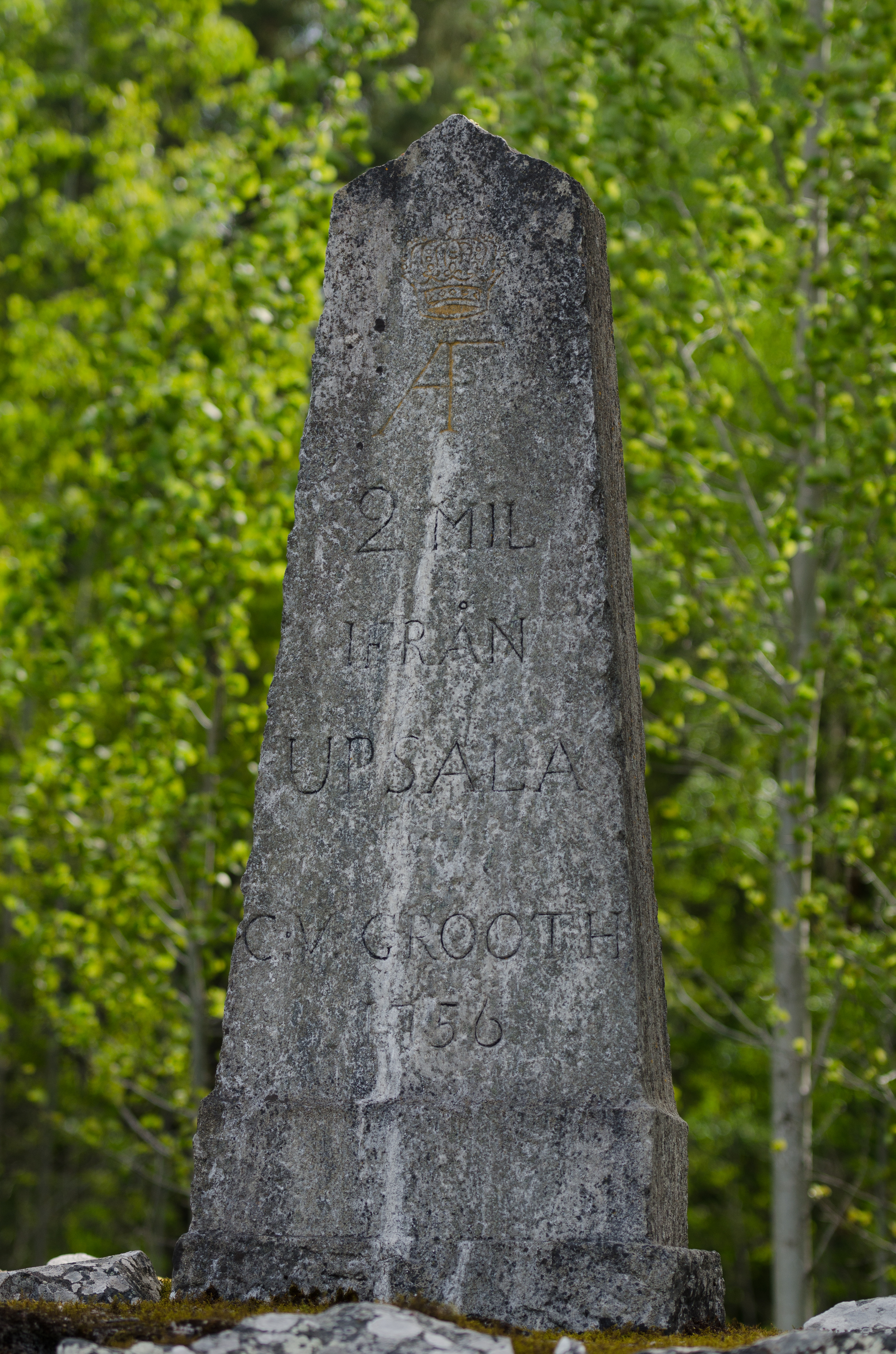 Milestone outside the village of Vattholma, Sweden.